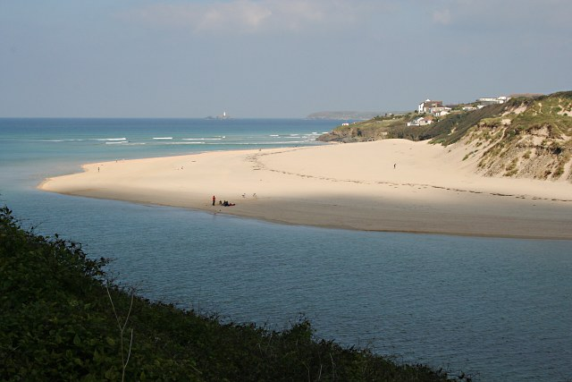 Hayle Towans from Lelant Towans Looking across the mouth of the Hayle Estuary. The word 'towans' is Cornish for sand dunes.